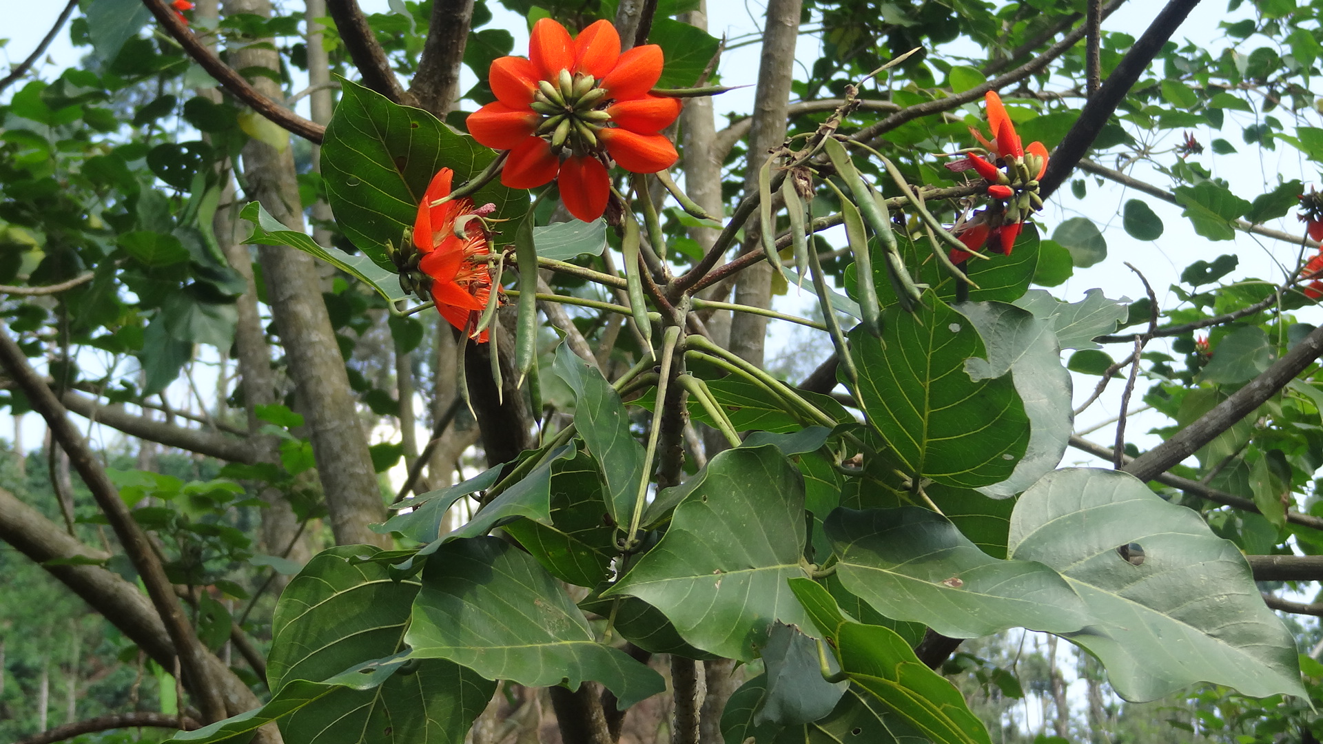 The species is planted as a shade tree and nitrogen fixer in coffee estates in Karnataka